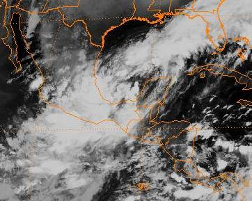 1999's Tropical Depression 11.